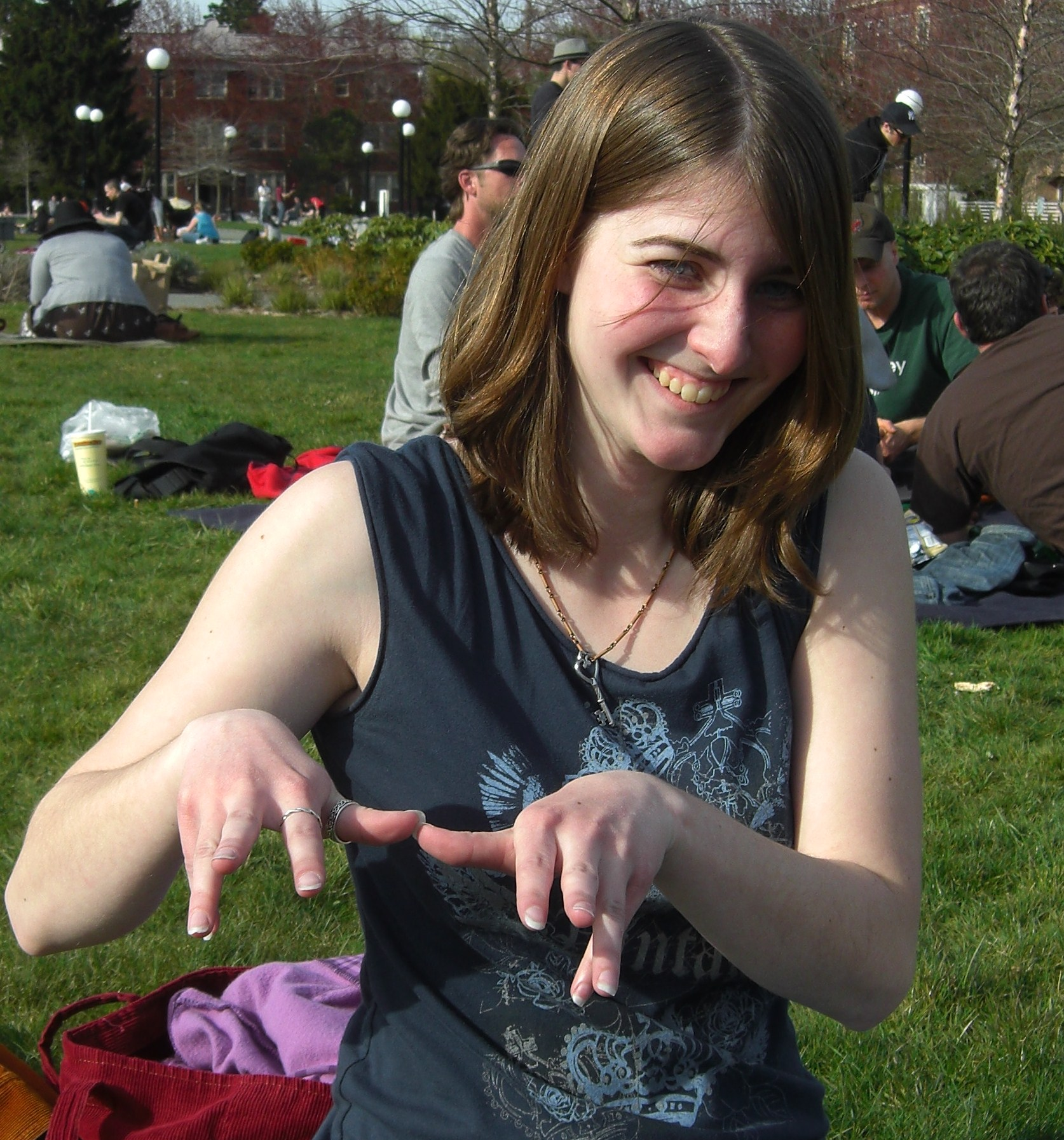 The final posture of the ASL sign en:5@Thumb-PalmDown-5@SideChesthigh-PalmDown 5@Thumb-PalmDown-5@ContraSideChesthigh-PalmDown.